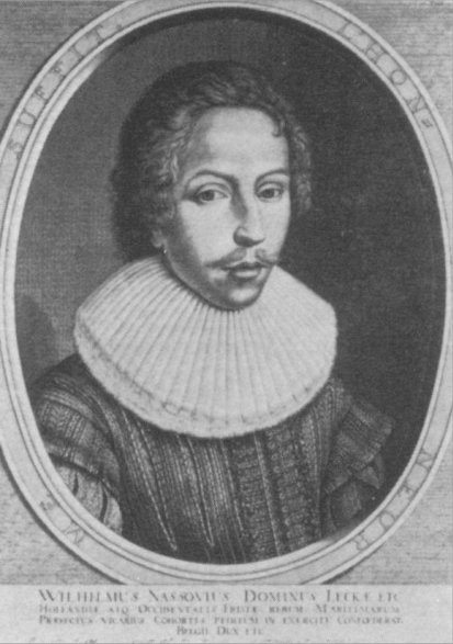 Etching of William of Nassau, Lord of den Lek from Genealogie van het Vorstenhuis Nassau, Zaltbommel, 1970 , Dek, Dr. A. W. E., Reference: page 148. by unknown artist. Says from 1620.